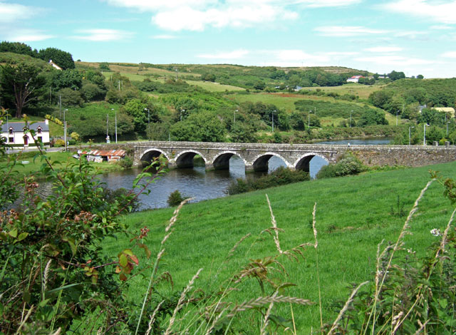 New Bridge Skibbereen The old bridge that is called New Bridge, actually pre-dates the bridge over the Ilen in the town centre.